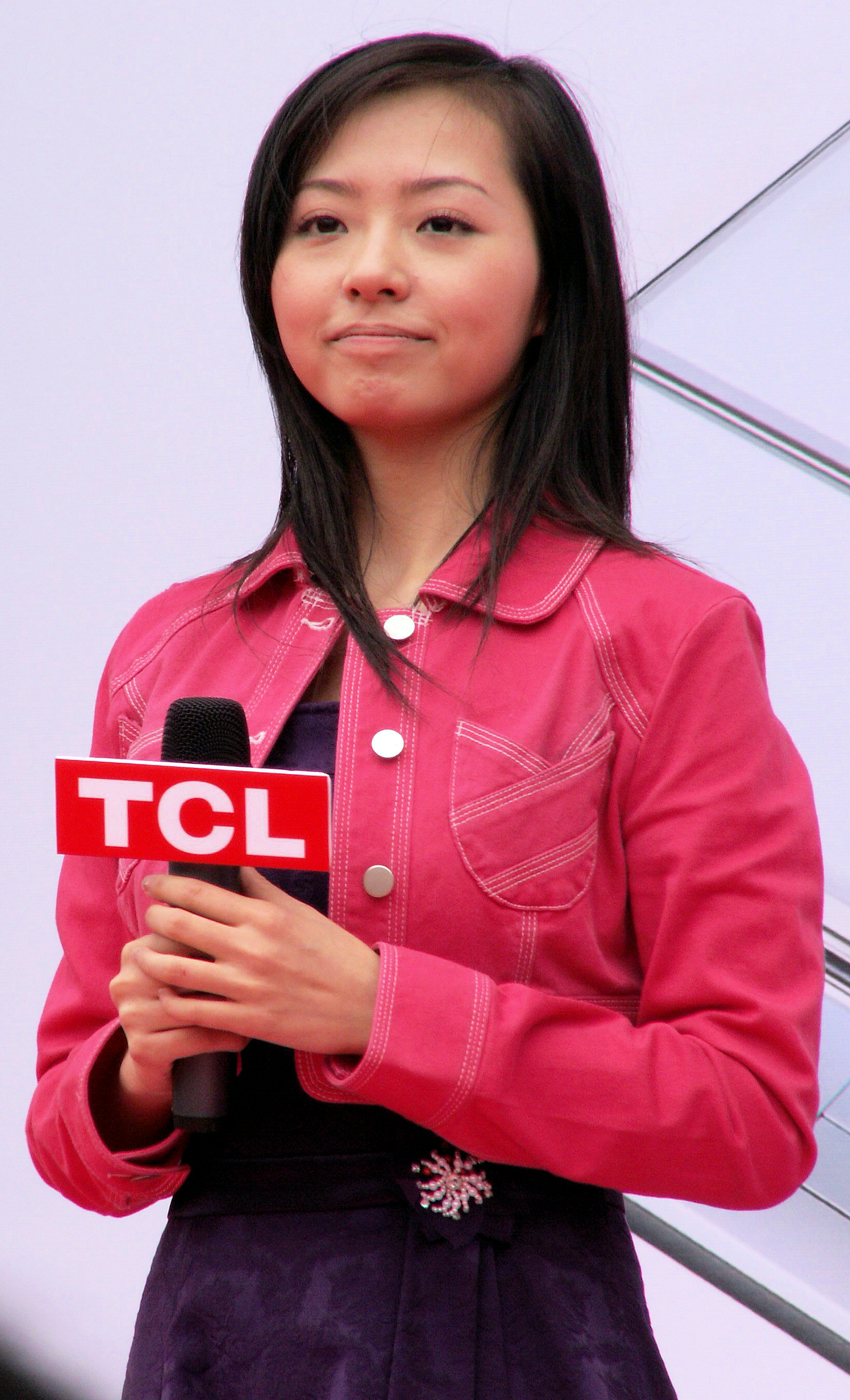 Jane Zhang中文（中国大陆）: 张靓颖 Bân-lâm-gú: 張靚穎。Tiunn Tsīng-íng.